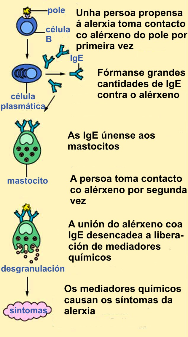 production of allergic symptoms